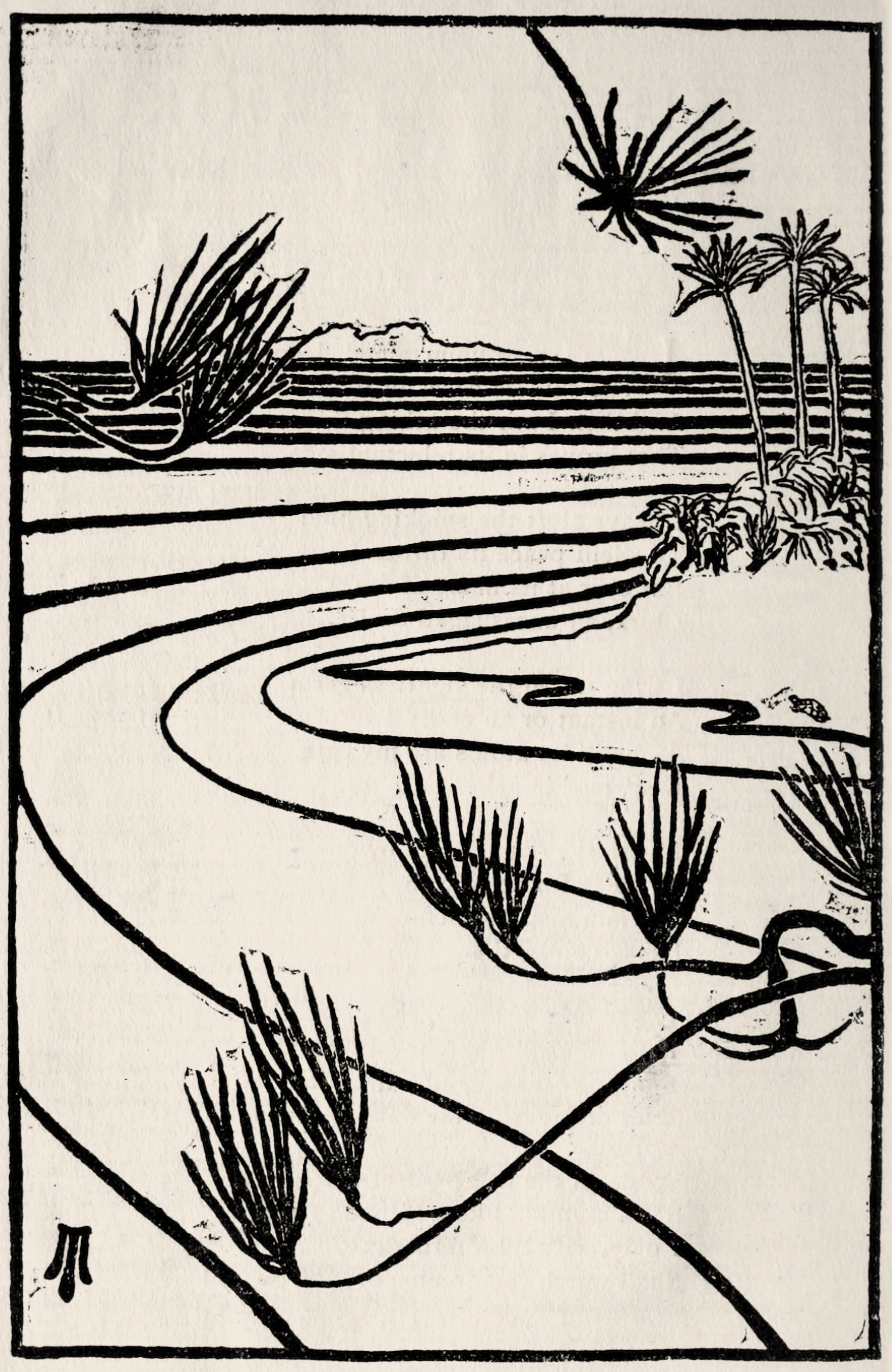 Cover and title page for the first US printing of The Ebb-Tide by Robert Louis Stevenson and Lloyd Osbourne